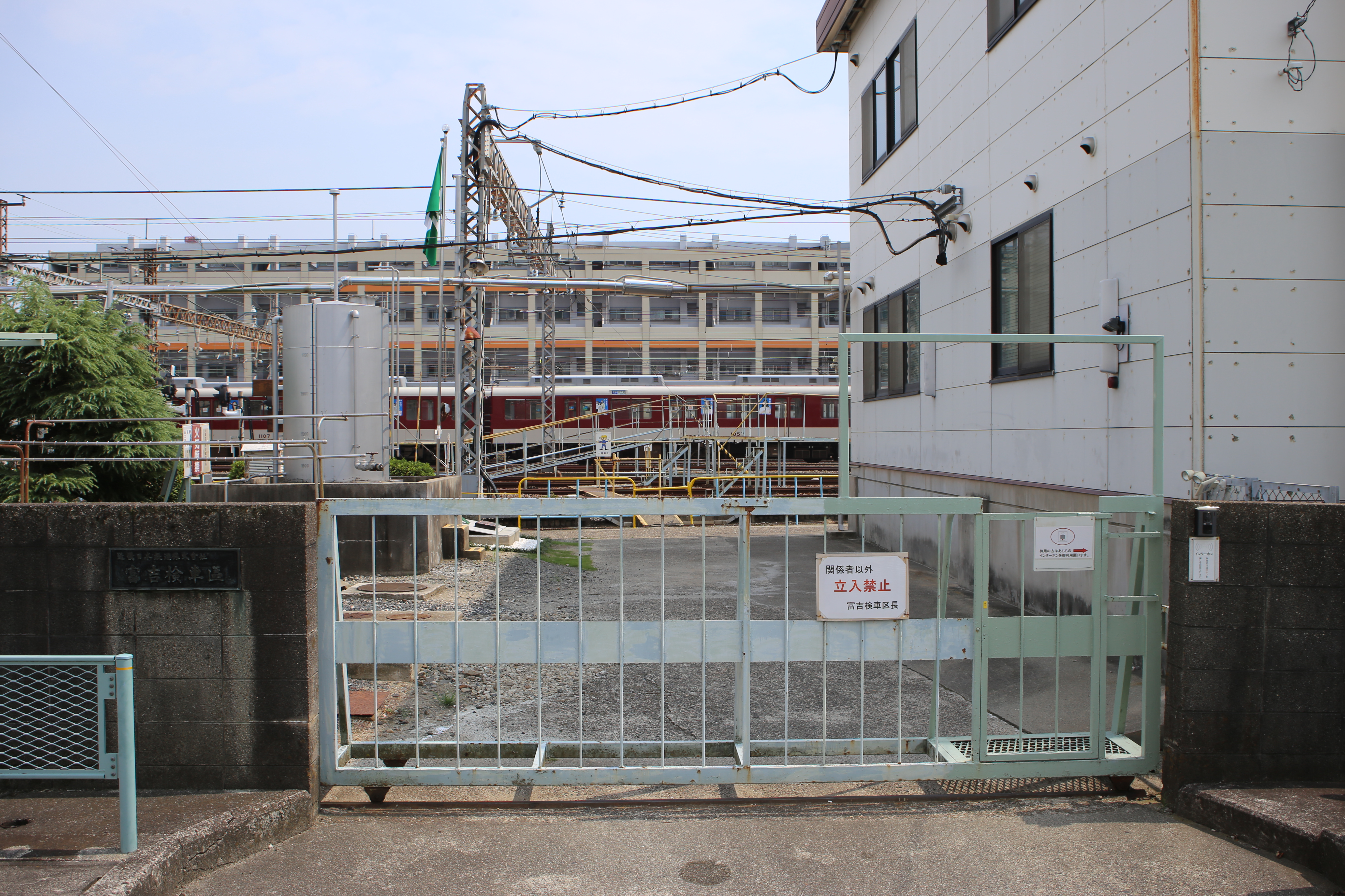 Kintetsu Tomiyoshi maintenance depot in Aichi Prefecture, Japan